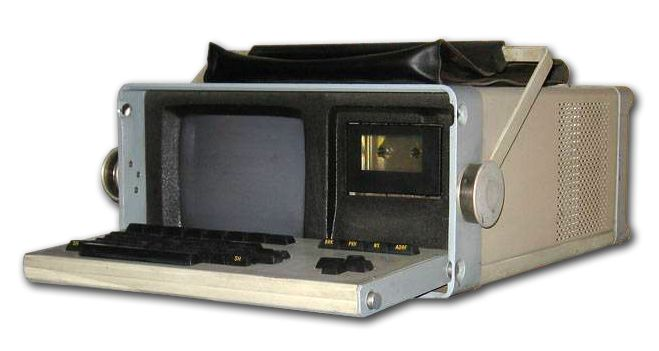 LPA512, a Programmable logic controller developed by Ivo Lola Ribar Institute in 1986. Photo taken by my brother at historical computer exhibition in Belgrade. I edited the photo slightly to make it more suitable for Wikipedia.